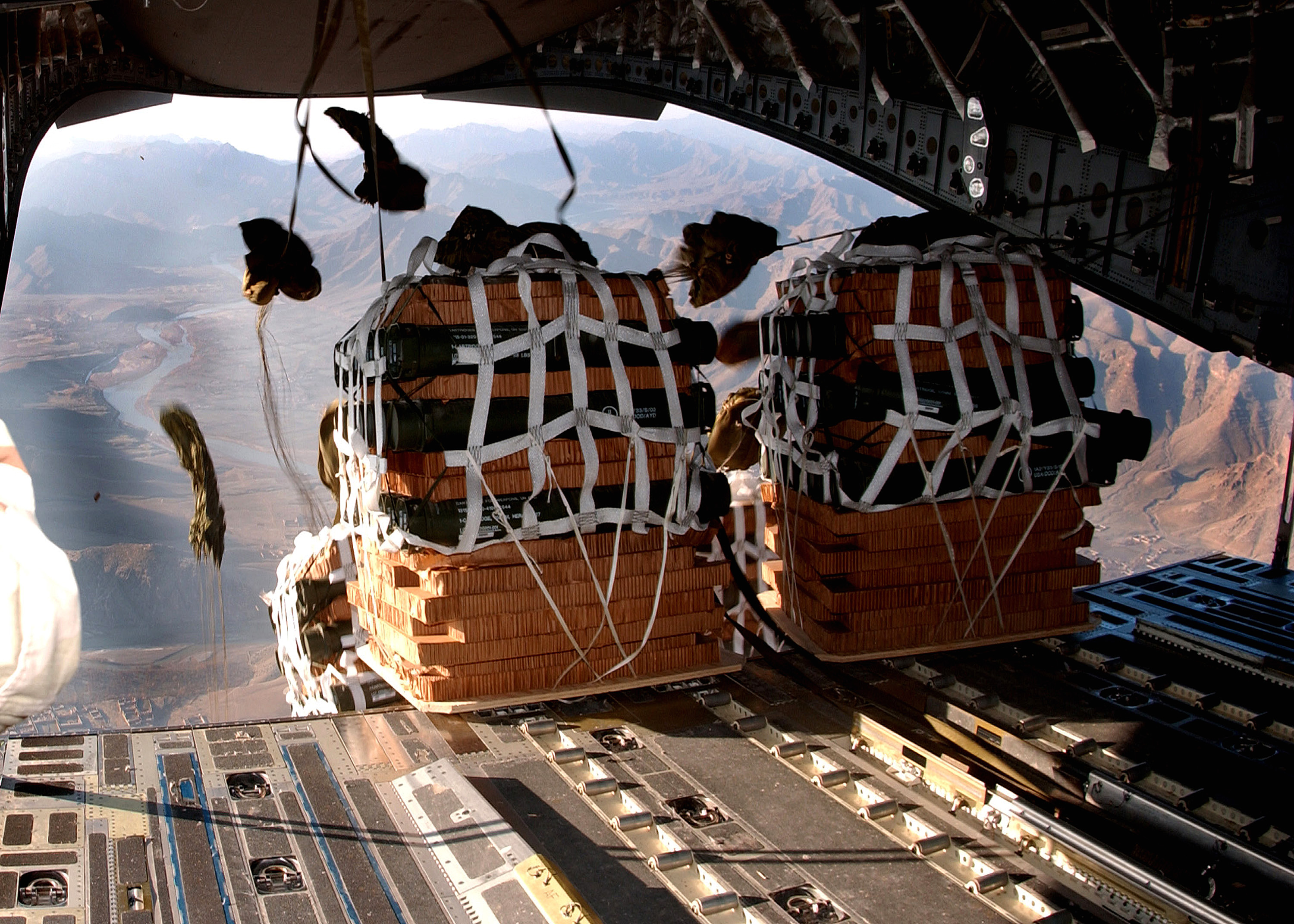 Parachutes begin to open on supply pallets being airdropped from a C-17 Globemaster III to servicemembers Jan. 2 at a remote camp in Afghanistan.